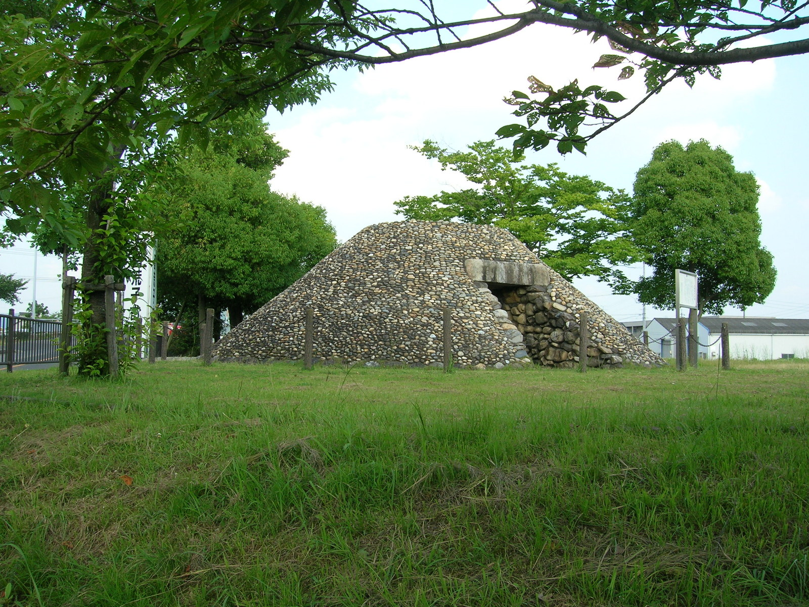 Odome arako kofun. Loc: Kasugai city, Aichi Prefecture, Japan. 大留荒子古墳 撮影場所 愛知県春日井市・荒子公園